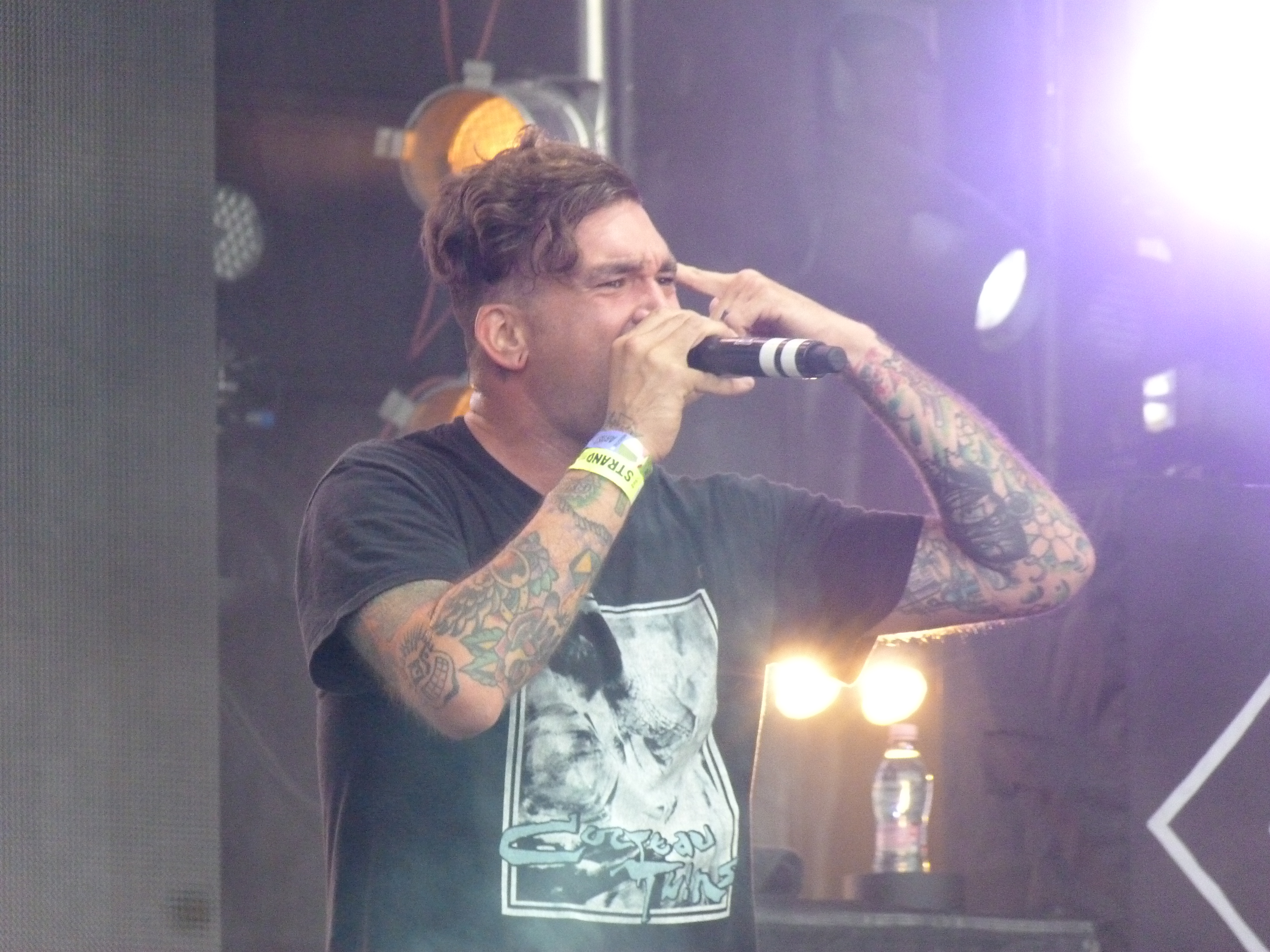 Live on the 19th of August, 2015. Zamárdi, Hungary. Strand Festival. New Found Glory (band).